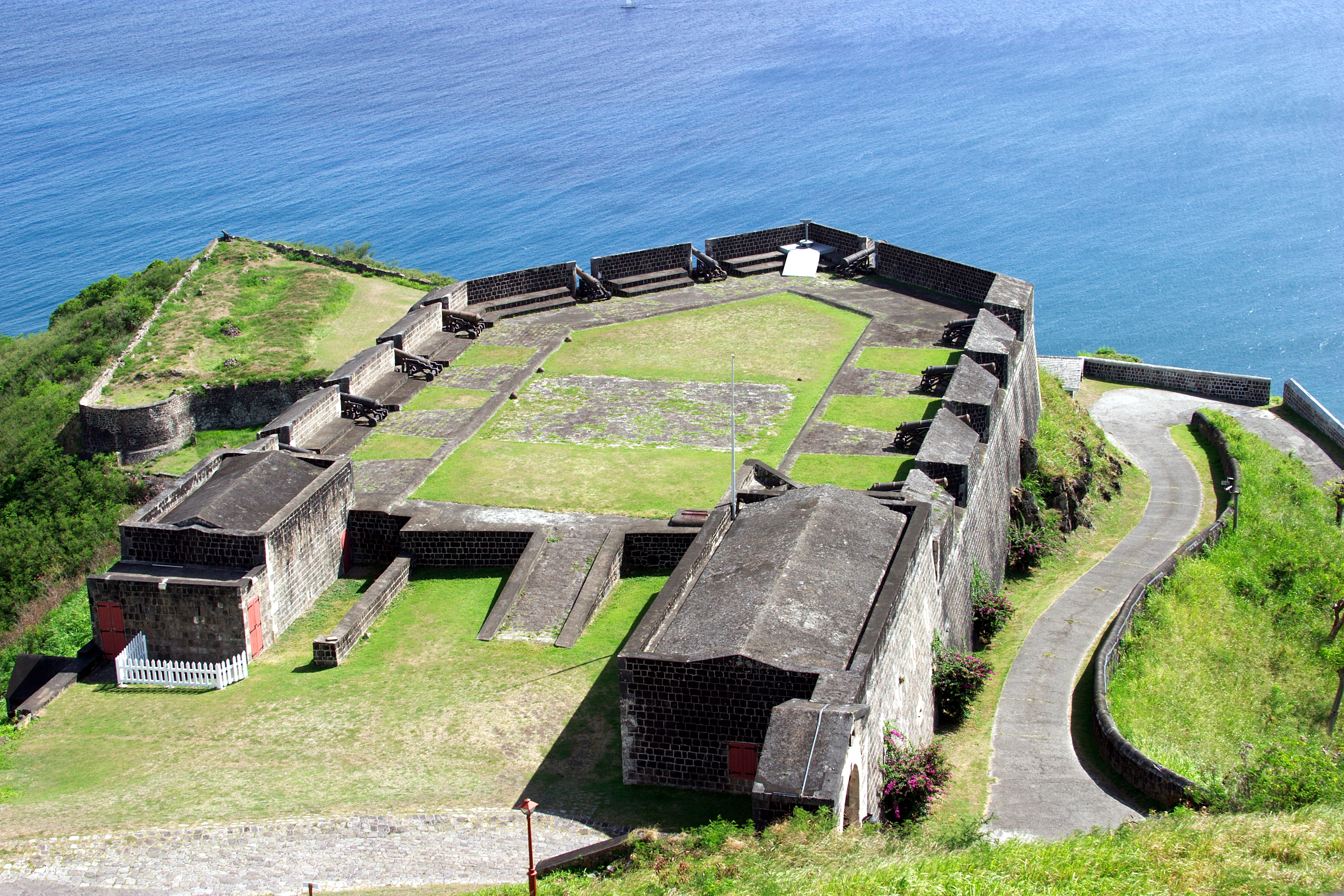 The Prince of Wales Bastion at the Brimstone Hill Fortress National Park, St Kitts, Leeward Islands